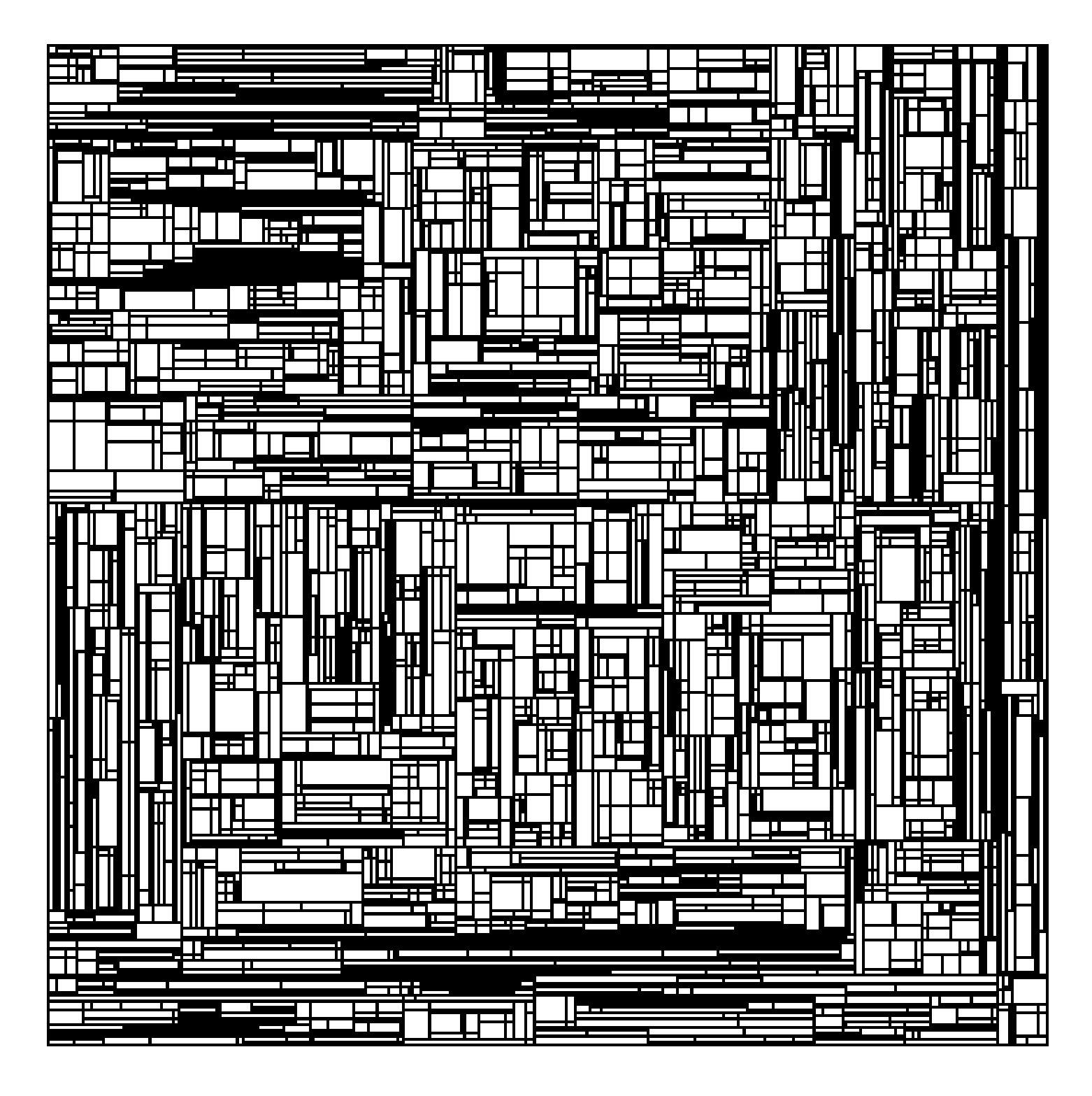 A snapshot of the weighted planar stochastic lattice (WPSL).